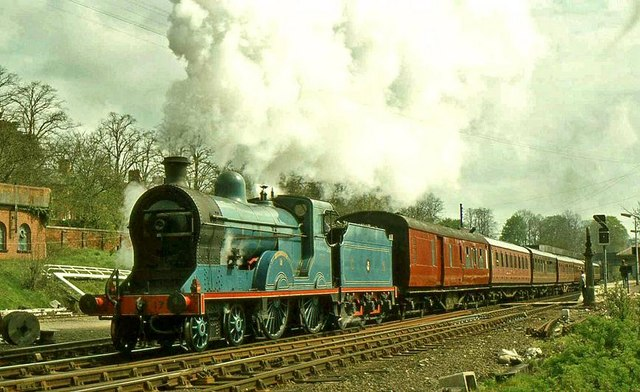 Lisburn, Northern Ireland: GNR Class S 4-4-0 locomotive 171 Slieve Gullion hauling an RPSI excursion train